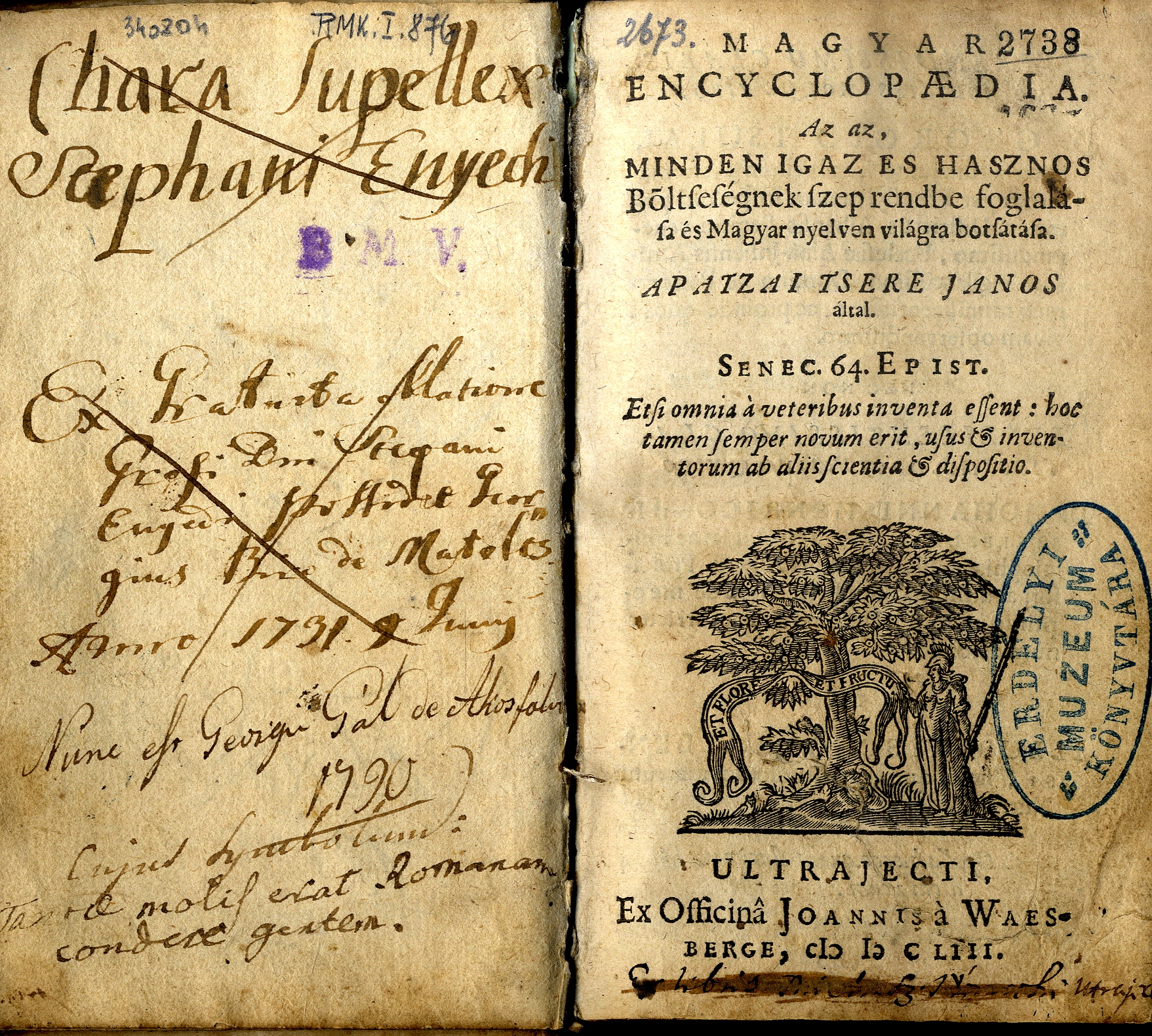 The cover of Magyar encyclopaedia printed in 1655, the first ever written encyclopaedia in Hungarian by János Apáczai Csere, Transylvanian Hungarian pedagogist and Cartesian philosopher